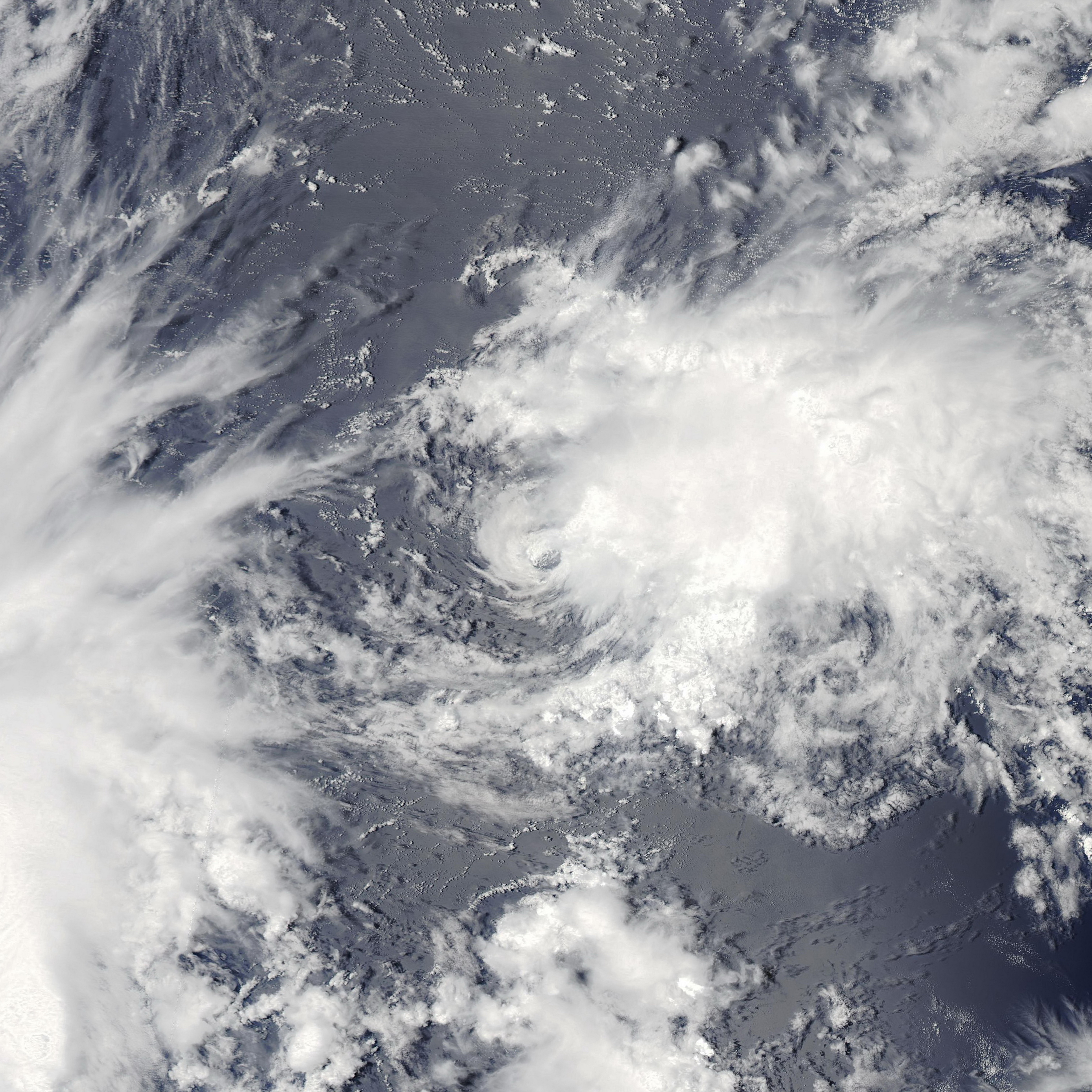 Tropical Storm Unala on August 19, 2013